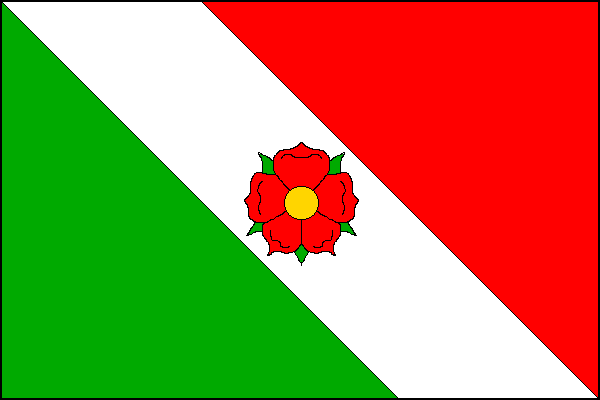 Municipal flag of Radnice town, Rokycany District, Czech Republic.